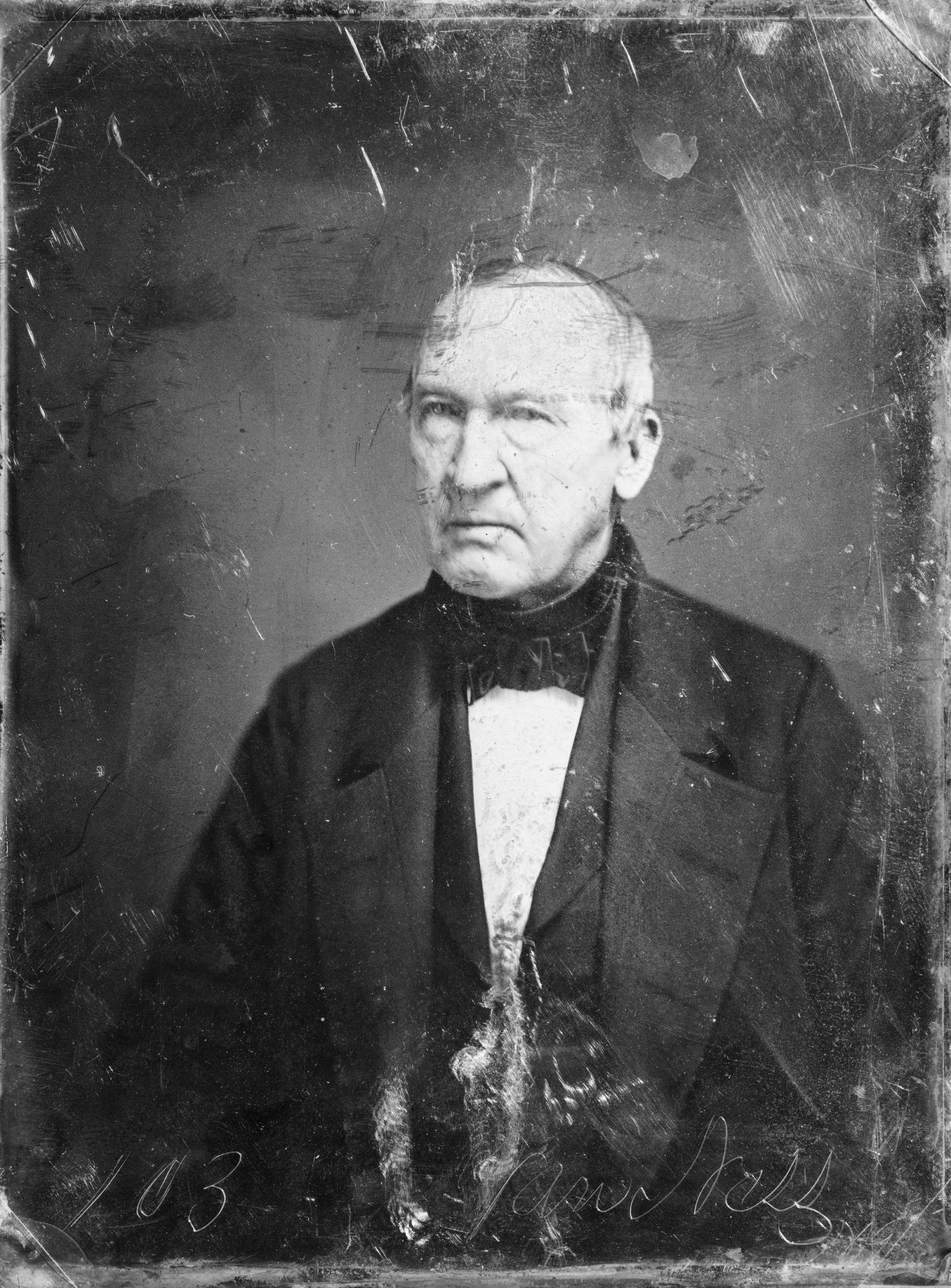 John Peter Van Ness, head-and-shoulders portrait, facing front .